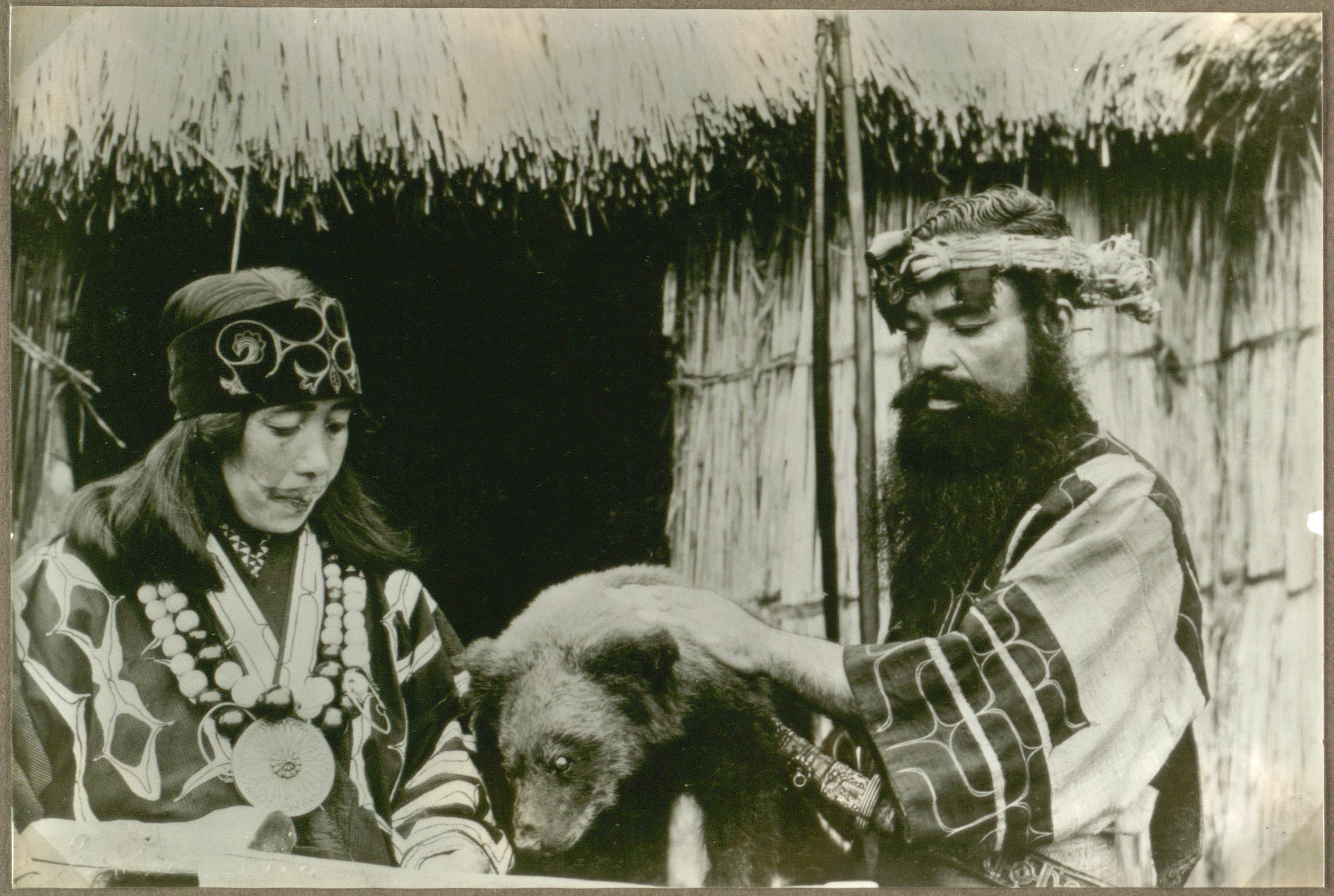 Japan – Aino, Hokkaido. Photographer: S. Kinoshita 1937. No. es_b_00529